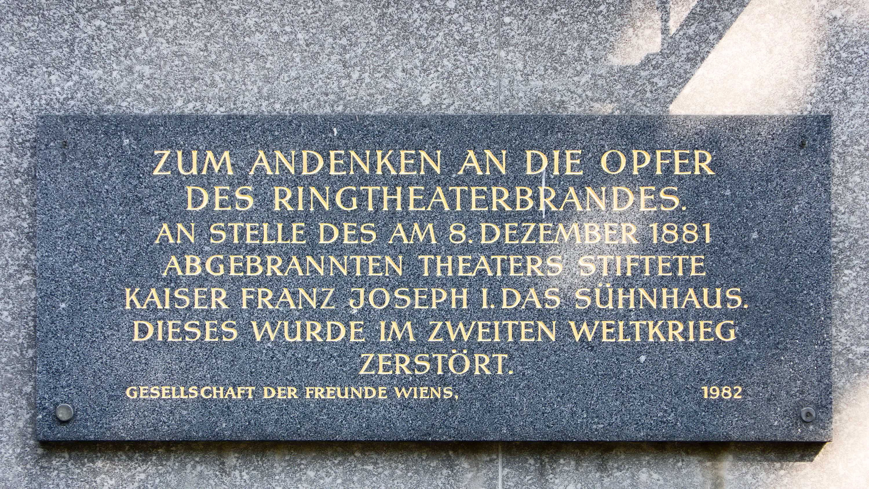 Police headquarters Polizeidirektion Wien (Schottenring 7–9) in Vienna Innere Stadt